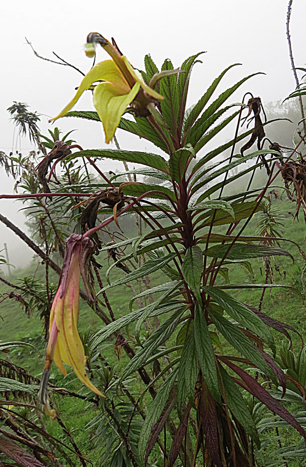 A species thought confined to the mountains of northern Ecuador. Photo from above Papallacta Hotsprings, where it is known as Pukunero. In context at